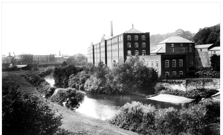 Congleton- Bear Town, East Cheshire. Many textile mills were built here for silk and cotton, powered by the water of the River Dane, and later by steam. Old Mill (1753) was demolished around 2003. Here we see the twin pediments,the second added in 1830, also to the right is the Town Corn Mill.